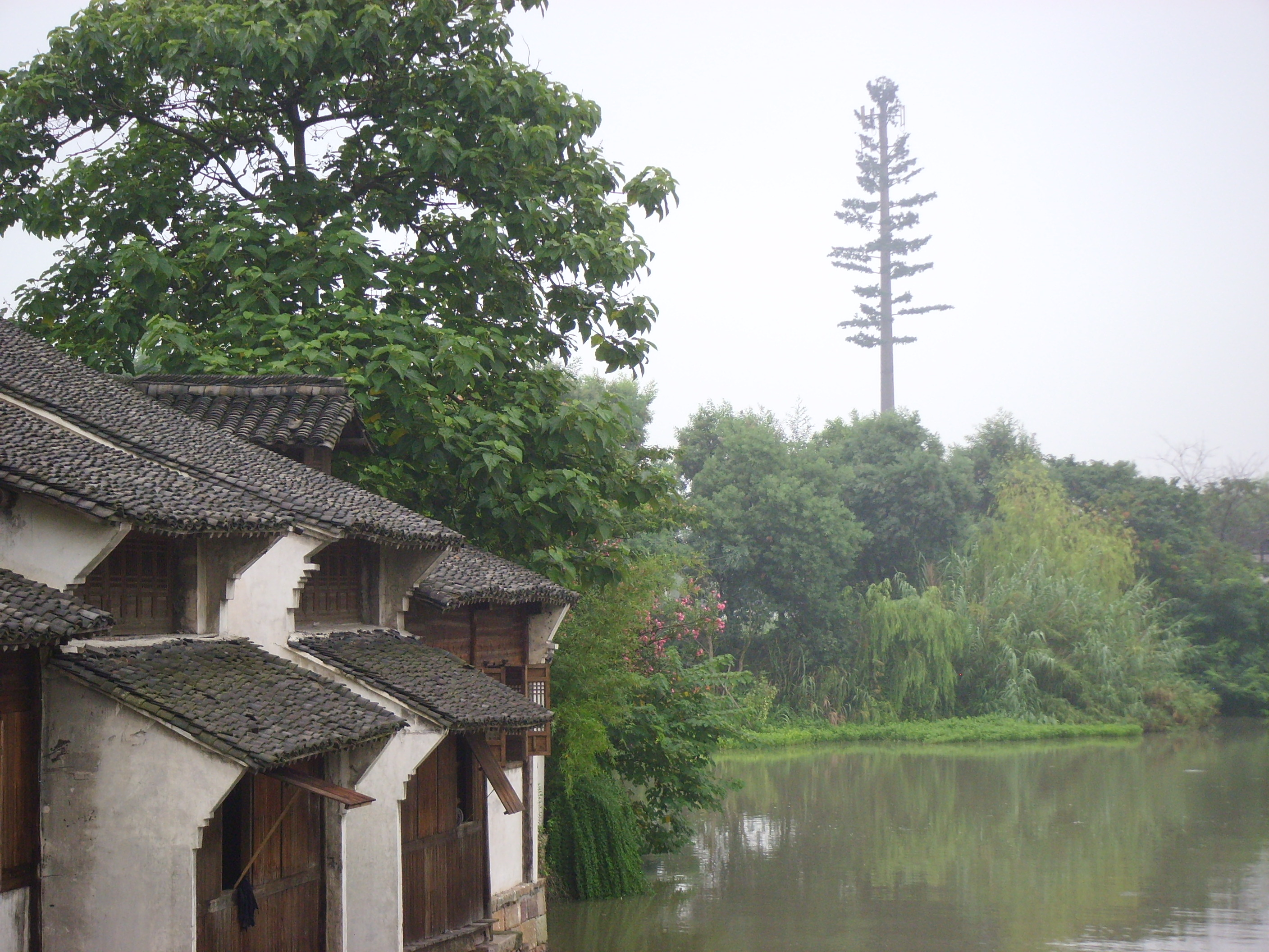 Wuzhen Xizha, Tongxiang, Zhejiang, P. R. of China: Communications tower, camouflaged as a slim tree